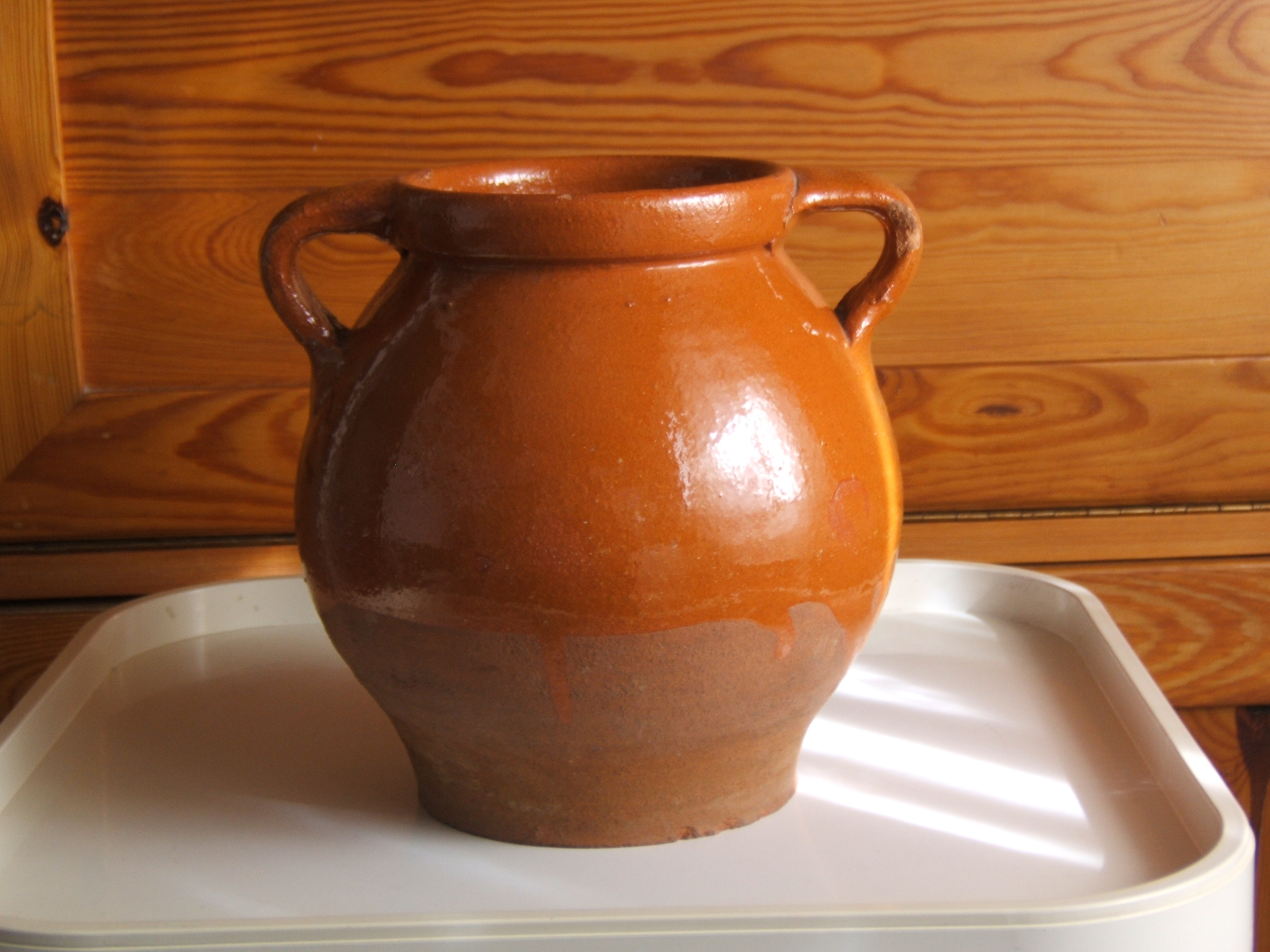 Alcorcón "red clay pot" for cocking. Container of mud to conserve the foods into olive oil.